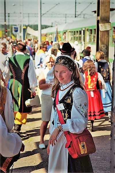 National Kashubian costume, 2005.